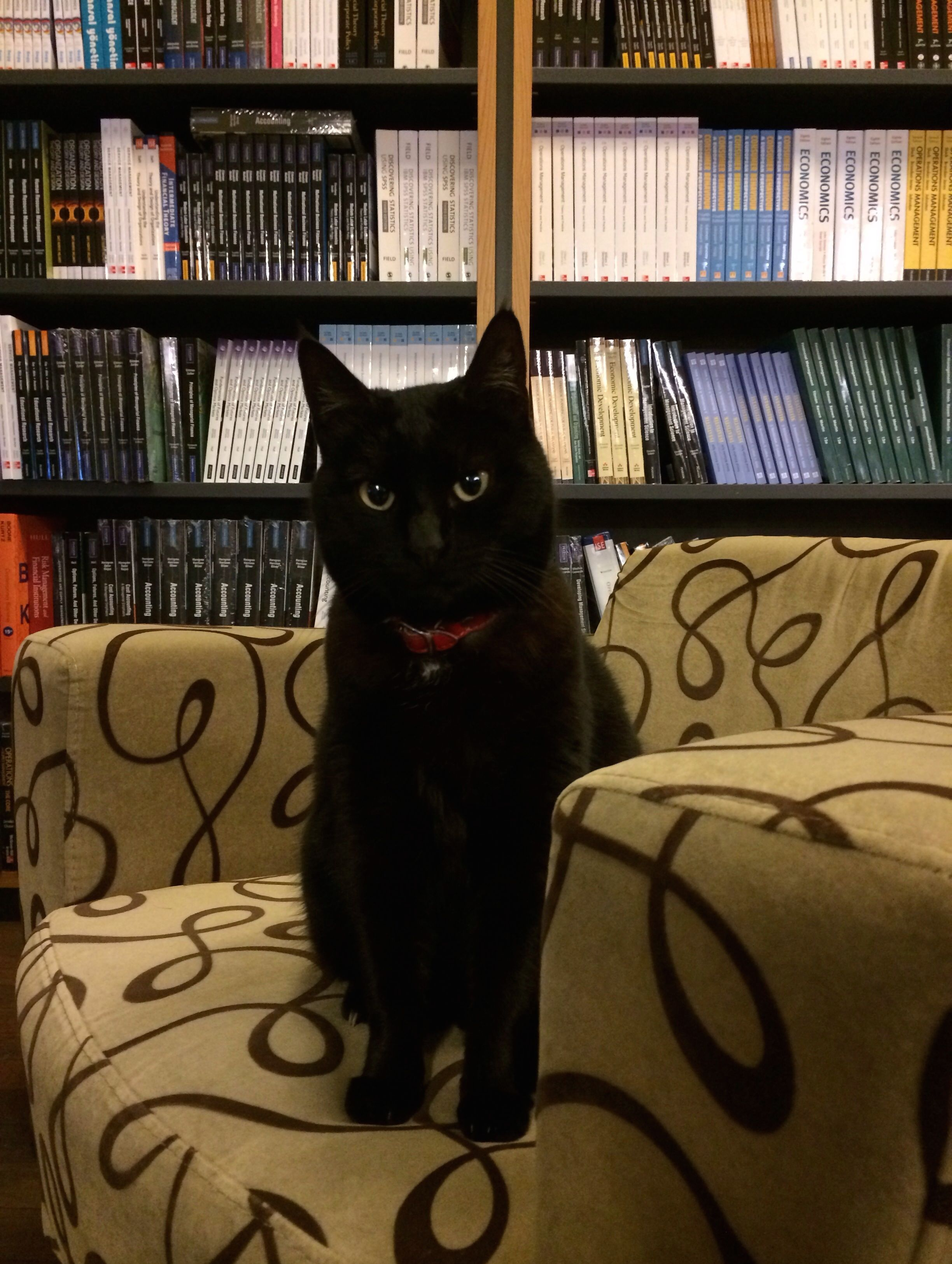 black cats are considered bad luck